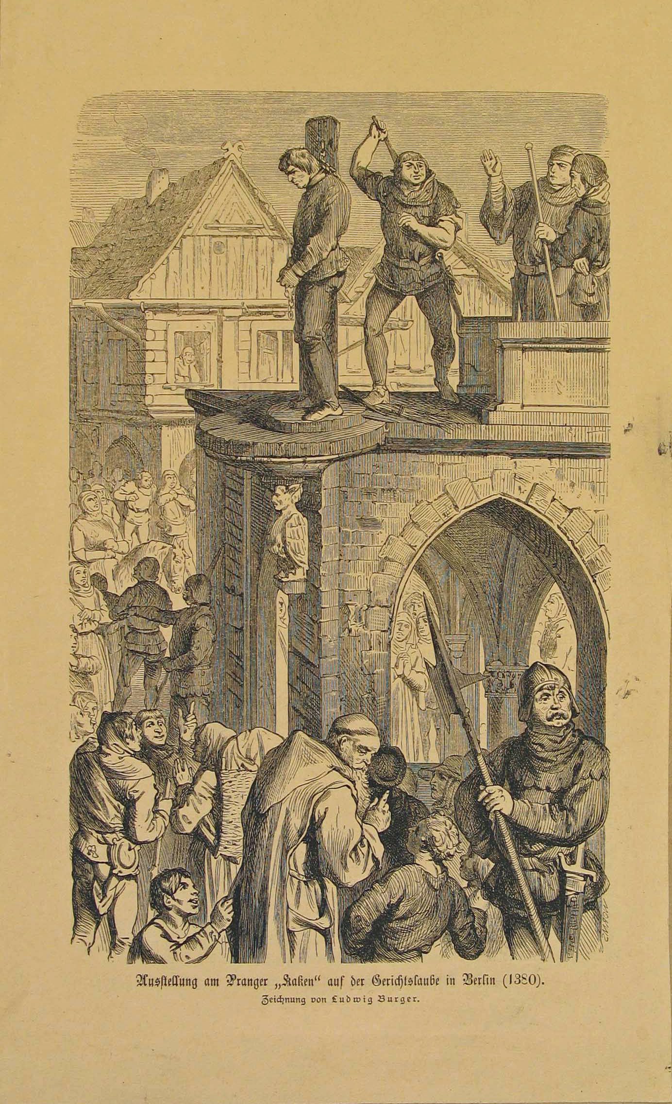 Pillory in Berlin (1380)